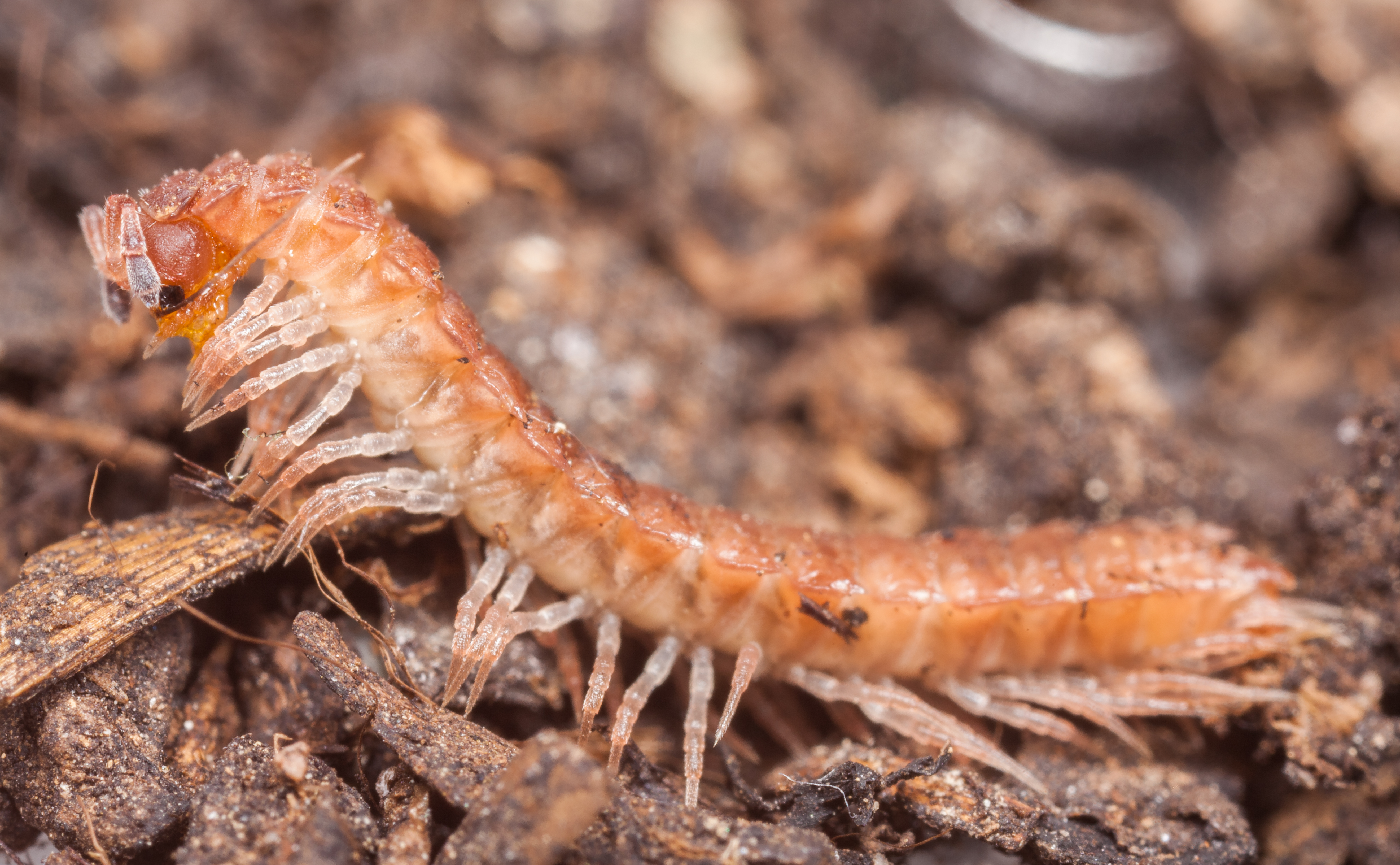 Brachydesmus superus, Hartelholz, Munich, Germany